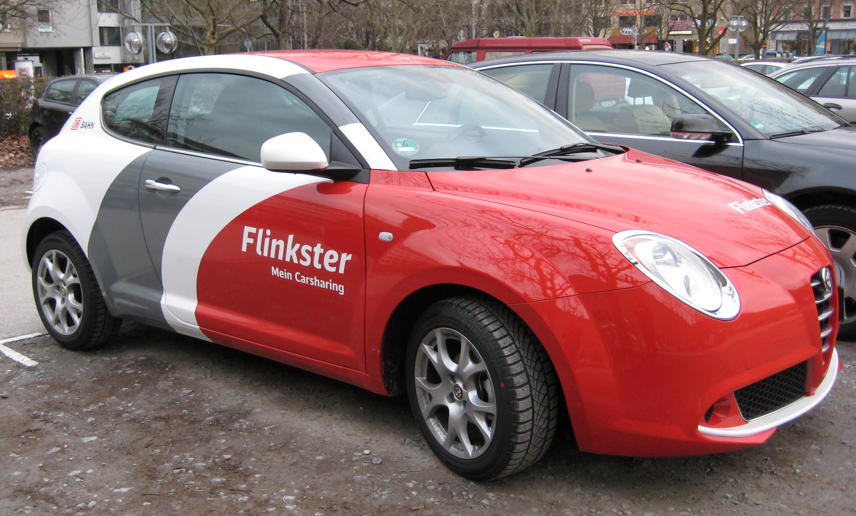 Carsharing vehicle Flinkster of Deutsche Bahn AG in Stuttgart, Germany